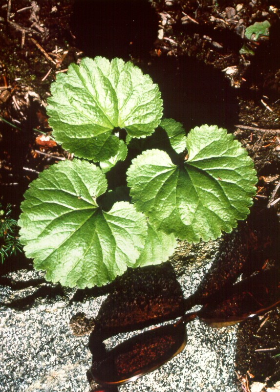 Veronica idahoensis (Synthyris platycarpa), Clearwater National Forest, USA